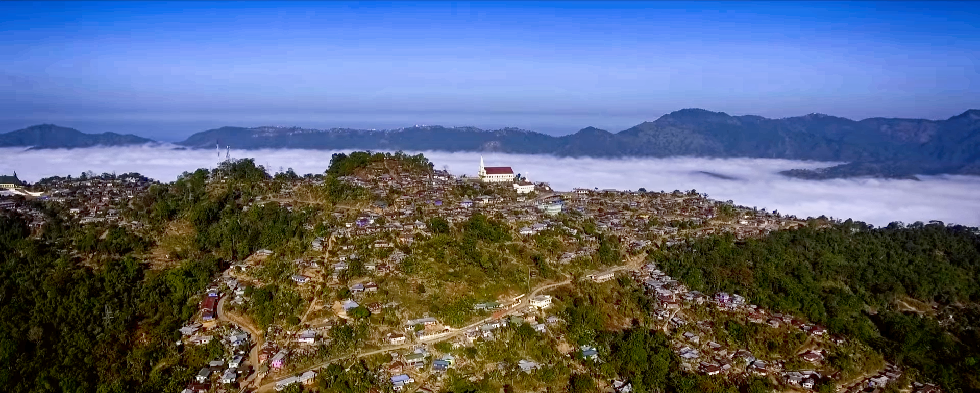 Ariel View of Chungtia Village